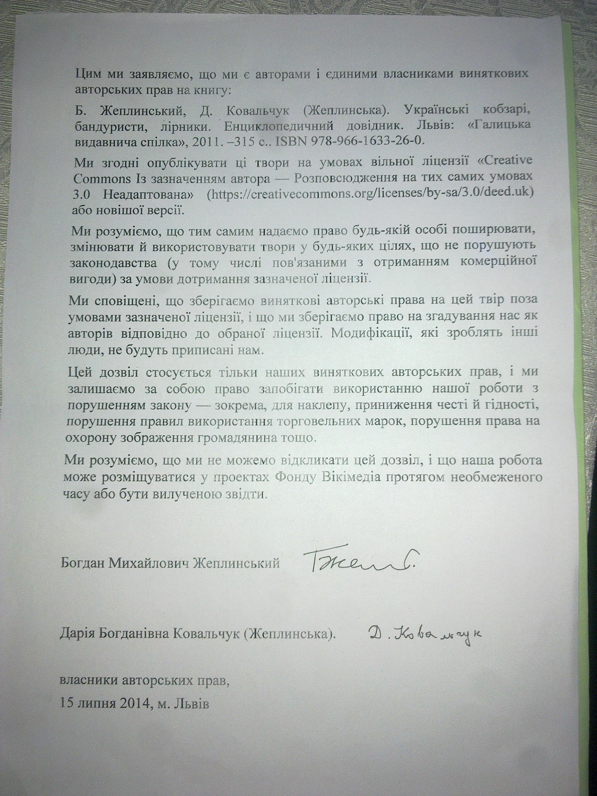 Copyright permission. See: Ticket:2016111410005785. Book (without photo): File:Жеплинський Б. М., Ковальчук Д. Б. Українські кобзарі, бандуристи, лірники. Енциклопедичний довідник (без фото).pdf. Also: Commons:Deletion requests/File:Жеплинський-001-135-А-Лаз.pdf.